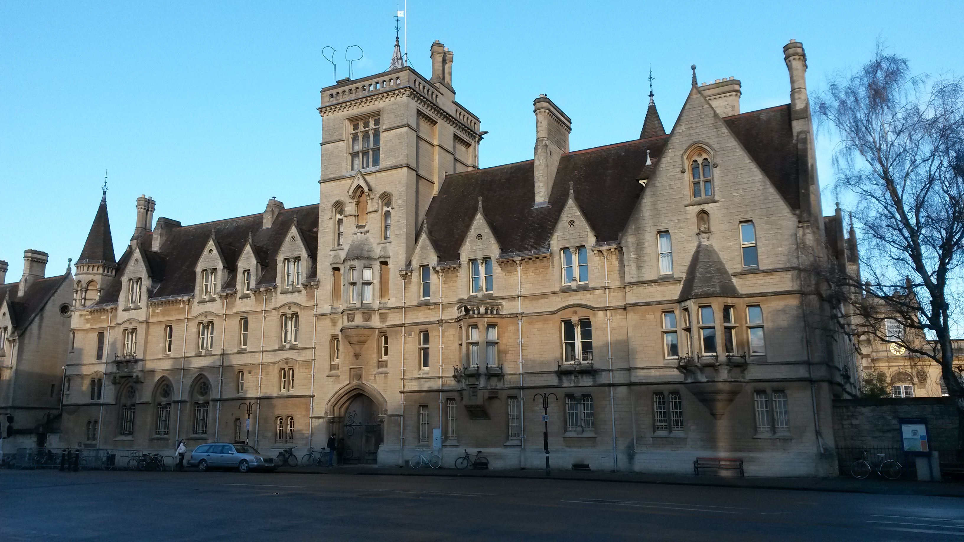 Balliol College, Oxford seen from Broad Street.